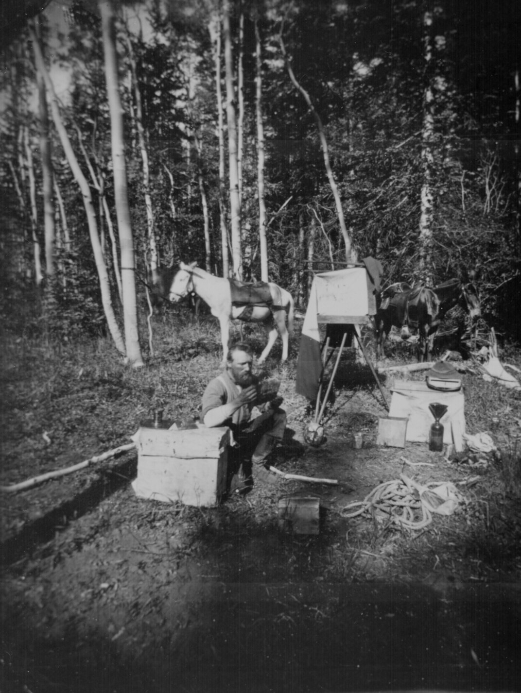 John K. Hillers at work with his negatives. In camp, Aquarius Plateau, Utah Terr. Hillers was a photographer with the John Wesley Powell Geological Survey. By Hillers, ca. 1872